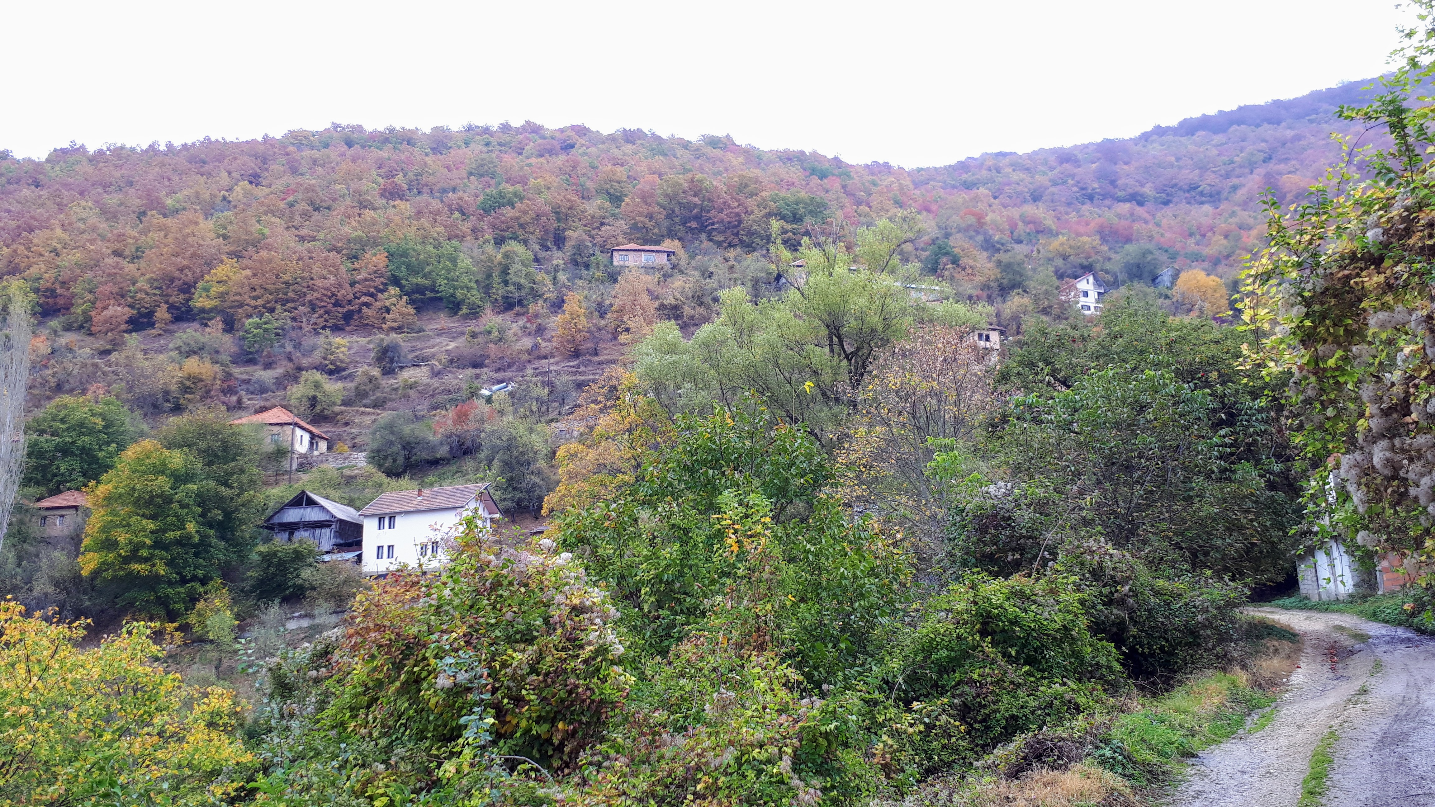 View of the village Malkoec